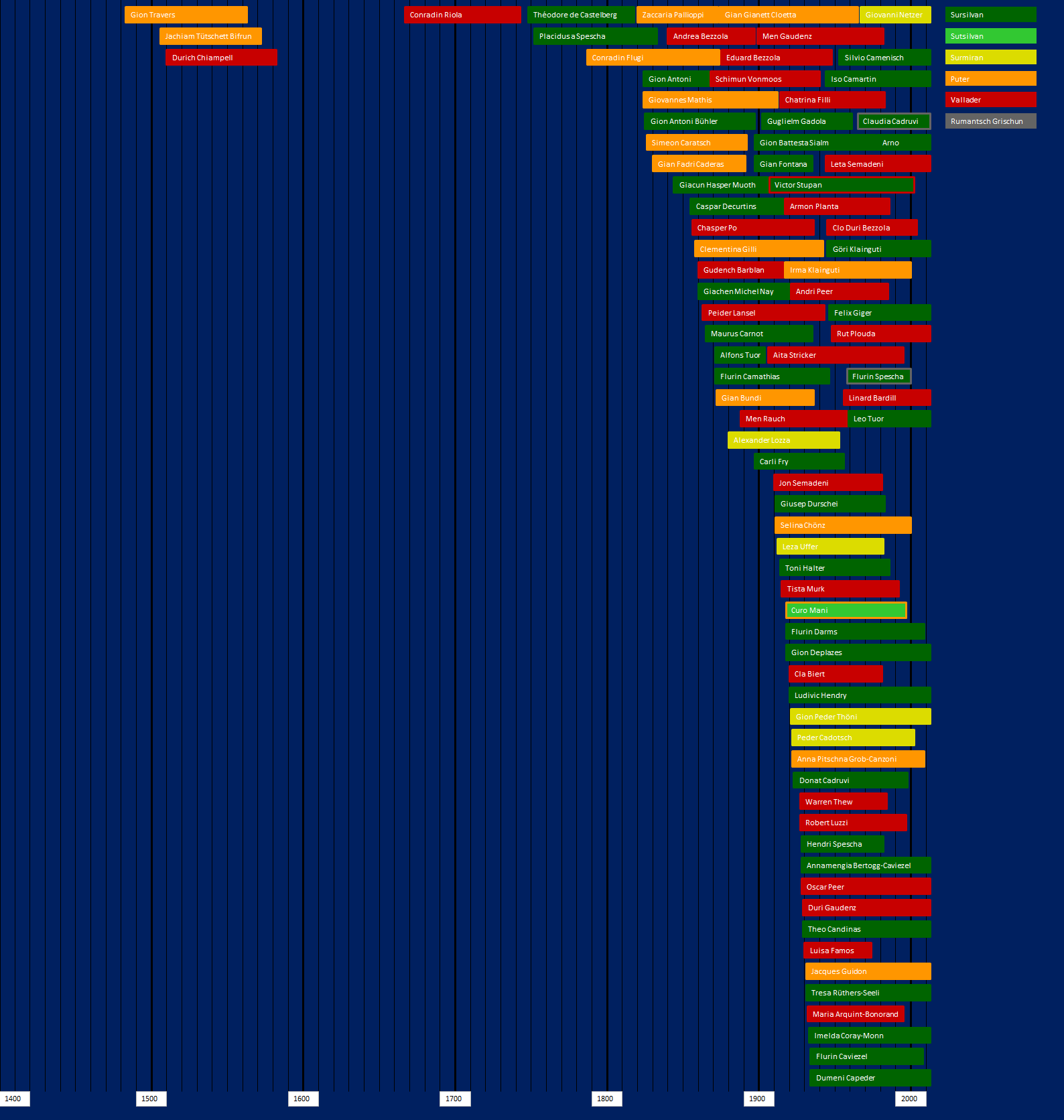 Synopsis on Rhaeto-Romance authors, by idiom